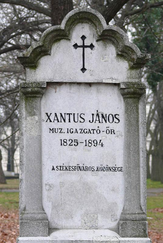 The grave of John Xantus de Vesey in the Kerepesi Cemetery, Budapest